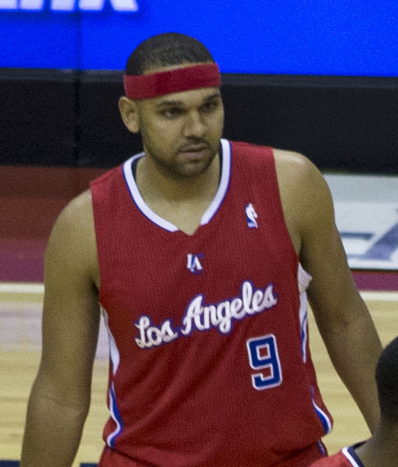 Jared Dudley